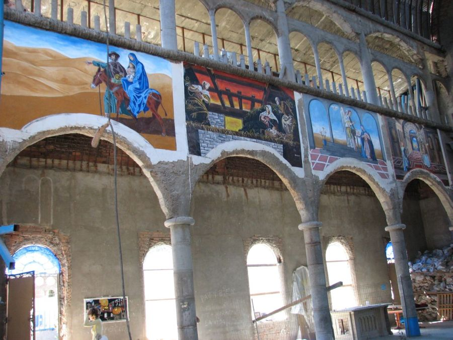 Interior Catedral de Justo